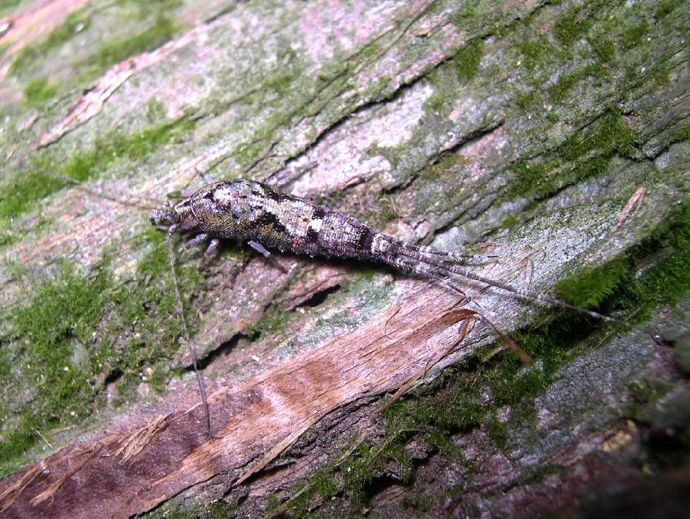 Pedetontus unimaculatus Machida,1980 (Archaeognatha: Machilidae: Petrobiinae)--female. The body approx. 10mm long (excl. tails). Loc: Yokohama, Kanagawa Prefecture, Japan. ヒトツモンイシノミ（イシノミ科）の雌。 横浜市。 --References-- MACHIDA Ryuichiro,1980. A New Species of the Genus Pedetontus from Japan (Insecta,Thysanura). Annotationes zoologicae Japonenses 53(2): 220-225. 町田 龍一郎, 2006. イシノミについて. 昆虫と自然 41(9) (通号 542): 9-13, 図巻頭1.